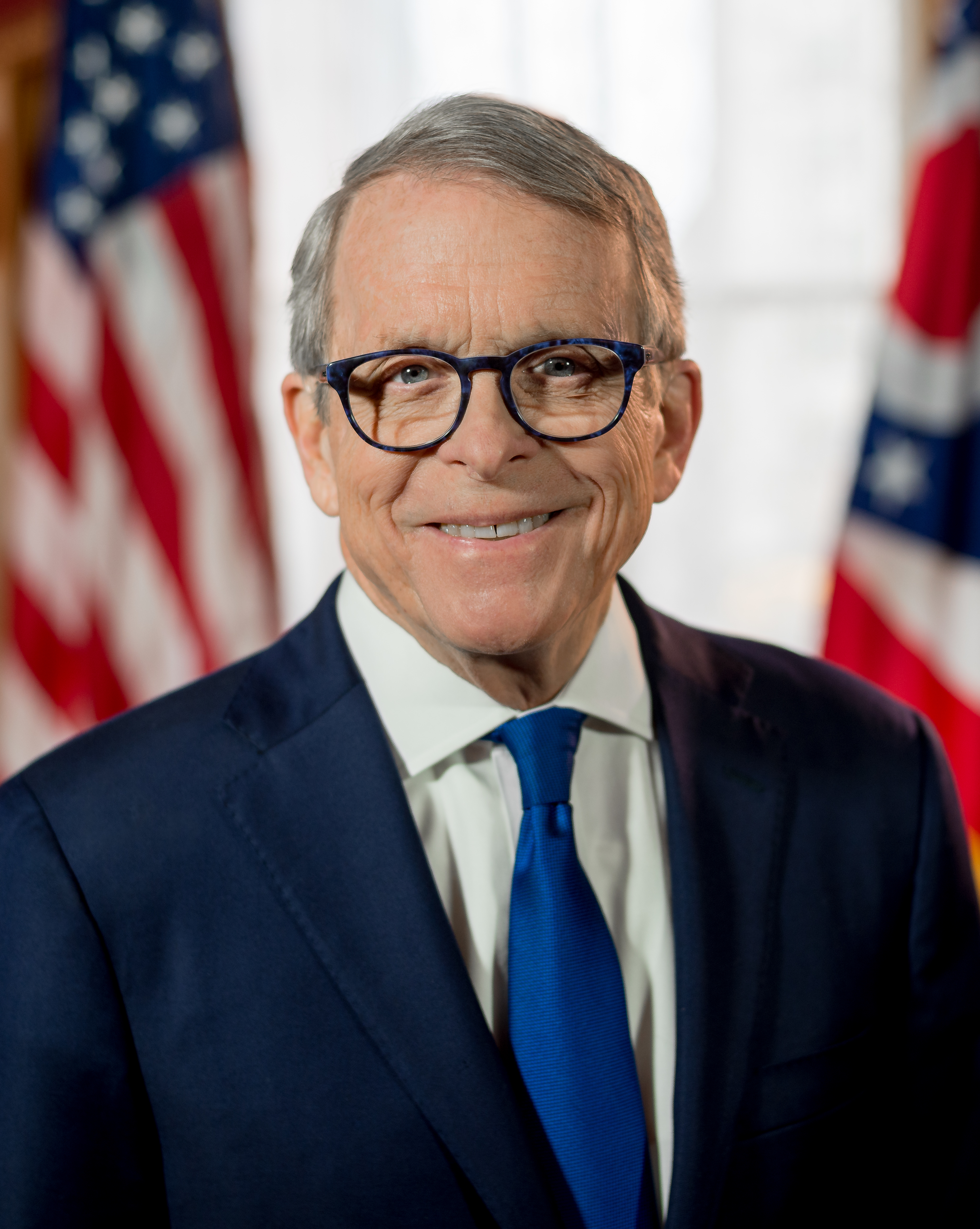 Depicted person: Mike DeWine – Ohio politician